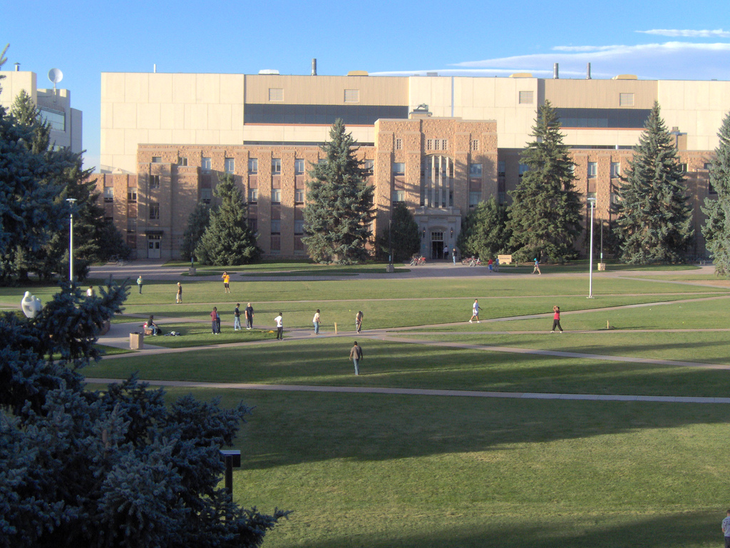 Students playing cricket